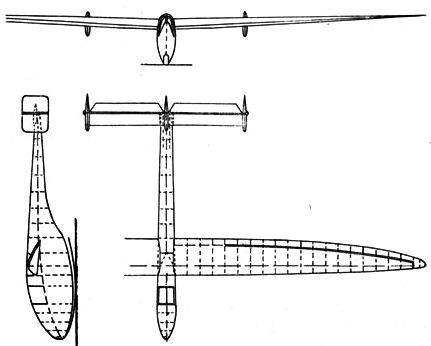 Naleszkiewicz-Nowotny NN-1 3-view drawing from L'Aerophile July 1932